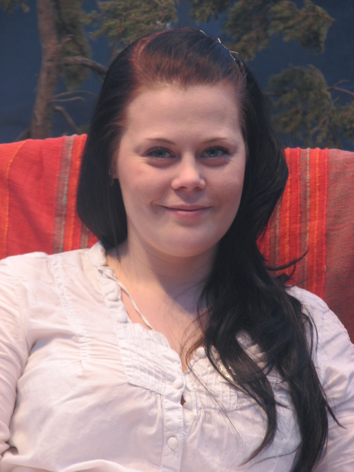 Maris Loitmets is Estonian ceramist.